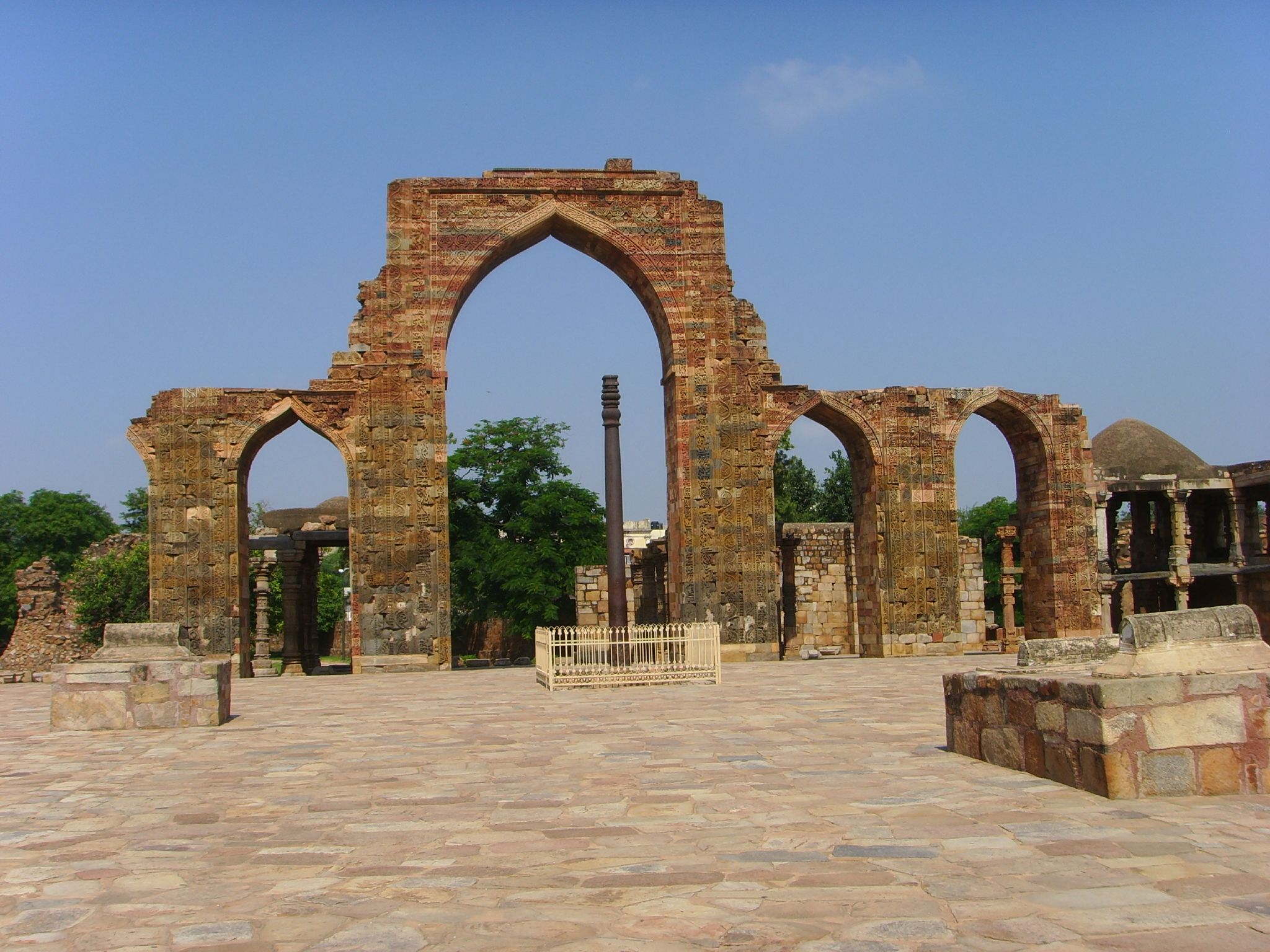 Quwwat-al-Islam Mosque with Iron Pillar at Qutb complex (Delhi, India)